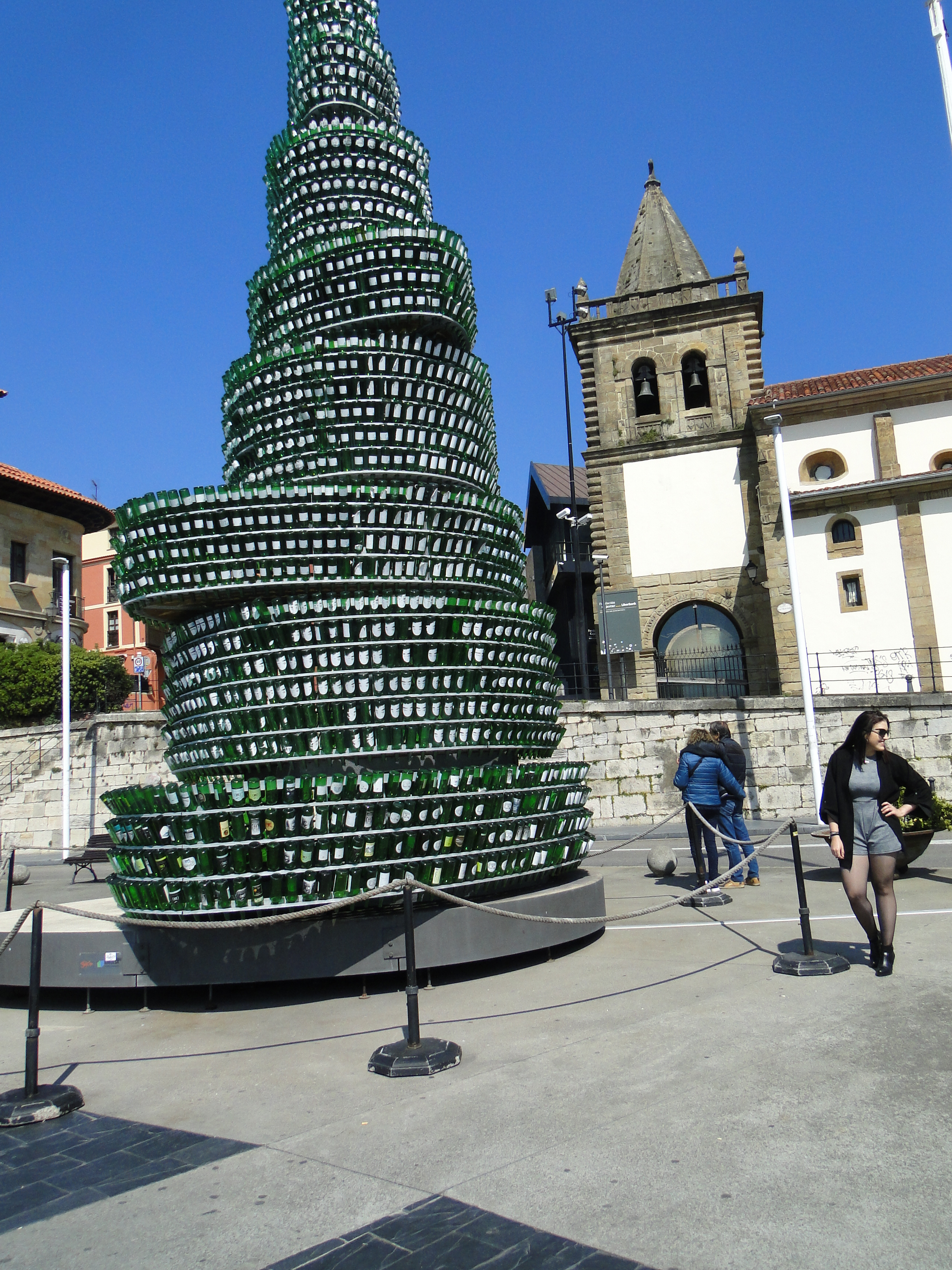 Monument in Gijon (Spain) made of empty bottles